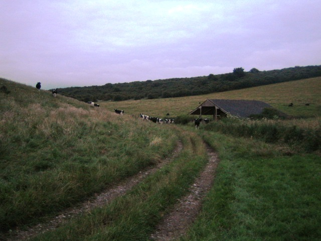 Tytherington Down near Tytherington 4. This view looking east, with the light fading, shows the eastern end of the dry chalk valley within Tytherington Down, see 494877, where it joins Long Bottom, another dry chalk valley. This is a fairly remote spot with the nearest farm 2.5km away.